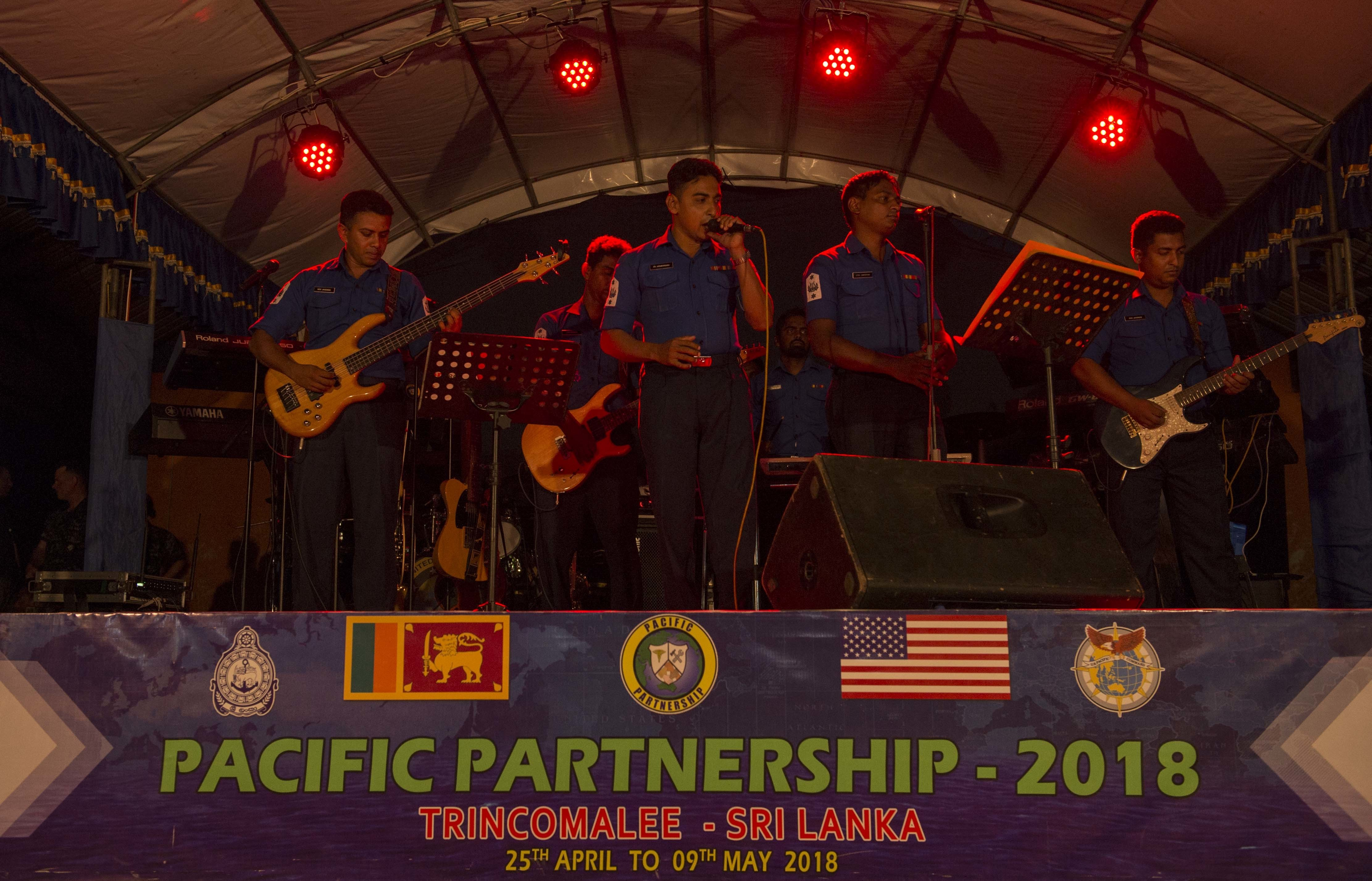 Members of the Sri Lanka Navy Band perform for local Sri Lankan’s, and U.S. service members at Mattur public grounds as a part of Military Sealift Command hospital ship USNS Mercy’s (T-AH 19) community relations event for Pacific Partnership 2018 (PP18). PP18’s mission is to work collectively with host and partner nations to enhance regional interoperability and disaster response capabilities, increase stability and security in the region, and foster new and enduring friendships across the Indo-Pacific Region. Pacific Partnership, now in its 13th iteration, is the largest annual multinational humanitarian assistance and disaster relief preparedness mission conducted in the Indo-Pacific.